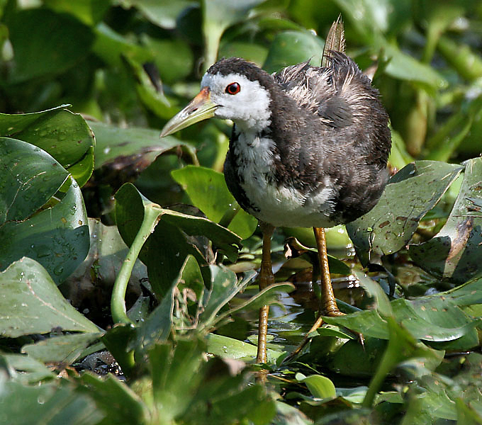 White-breasted Waterhen Amaurornis phoenicurus in Kolkata, West Bengal, India.